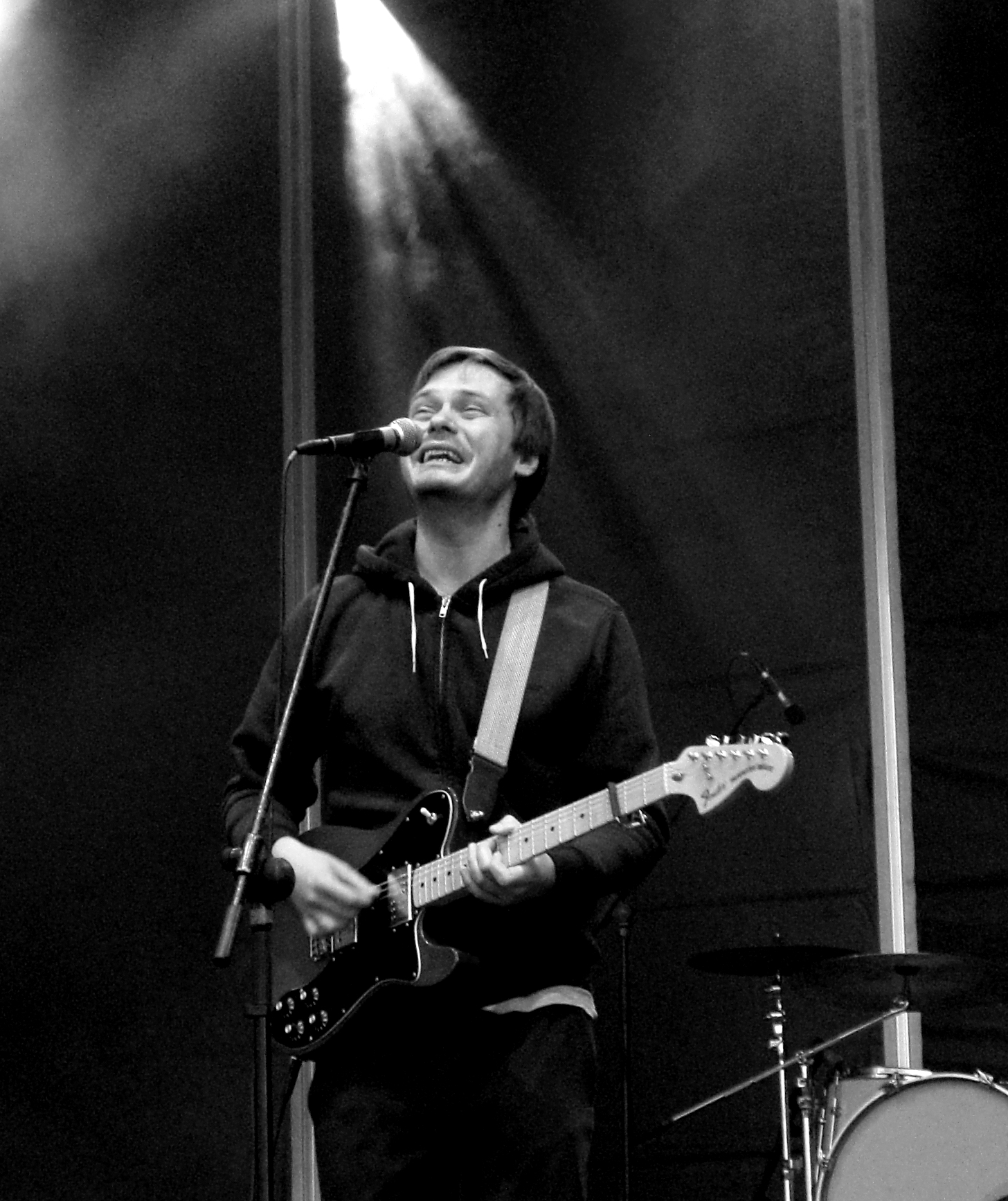 German singer-songwriter ClickClickDecker at Obstwiesenfestival, July 18, 2009